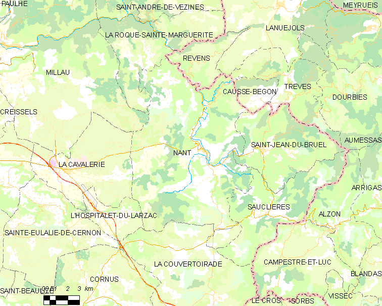 Map commune FR insee code 12168.png - Nant